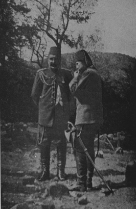 Prenk Pasha and a Young Turk at Shpal, Mirdita, after Prenk's return from exile